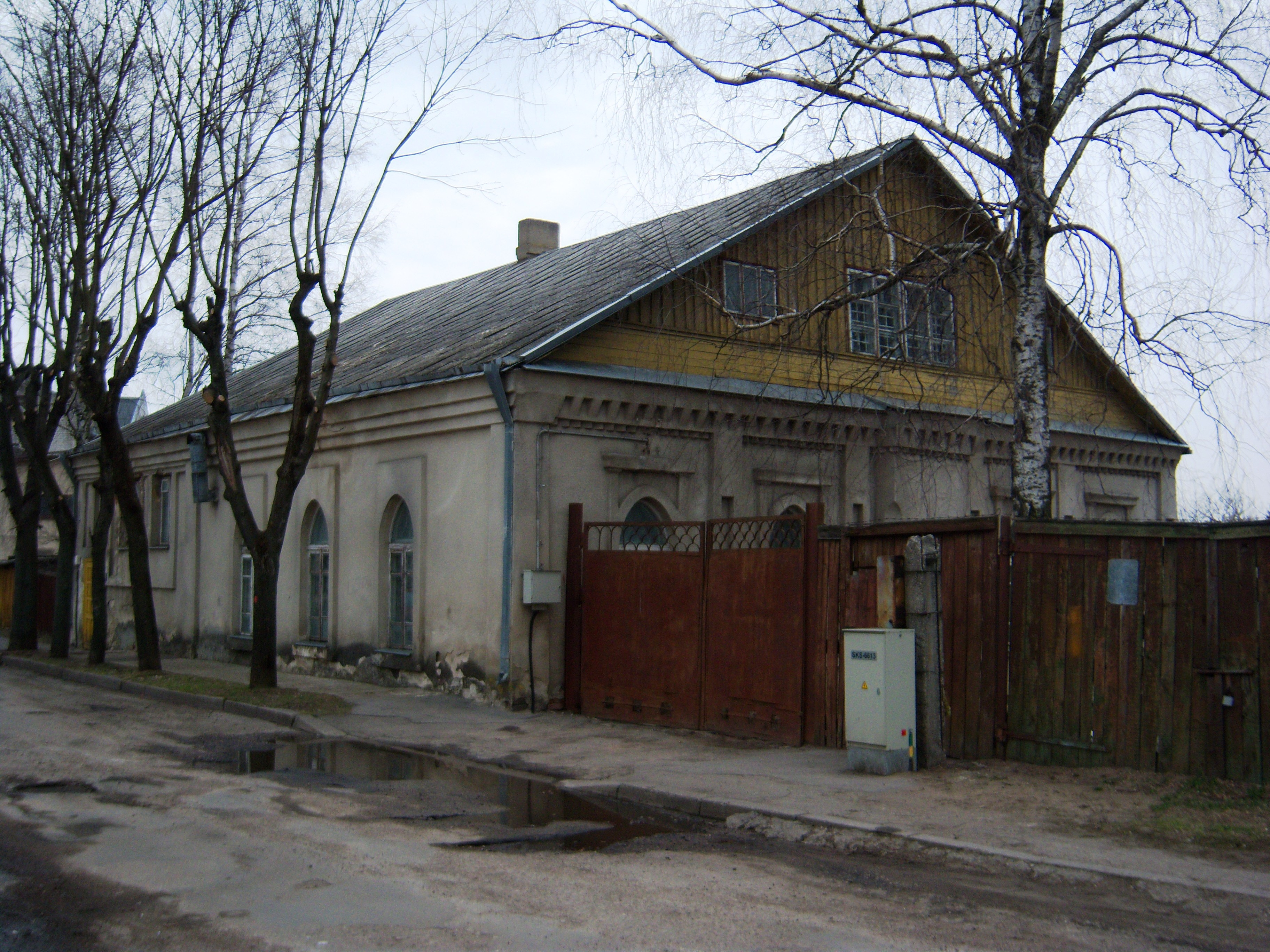 Former synagogue, Vaisių g. 30, Kaunas, Lithuania